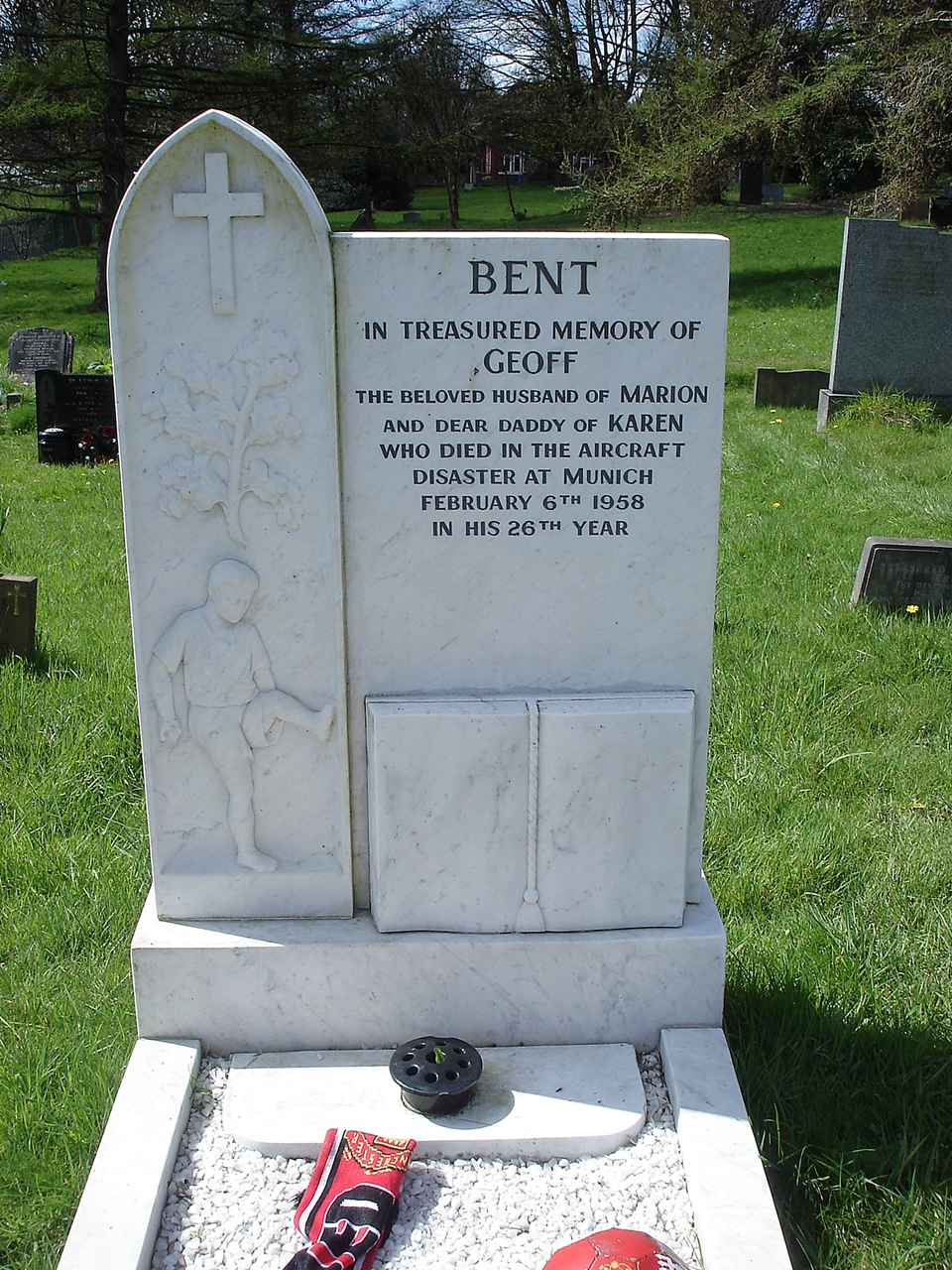 Geoff Bent headstone, St John the Evangelist churchyard, Pendlebury